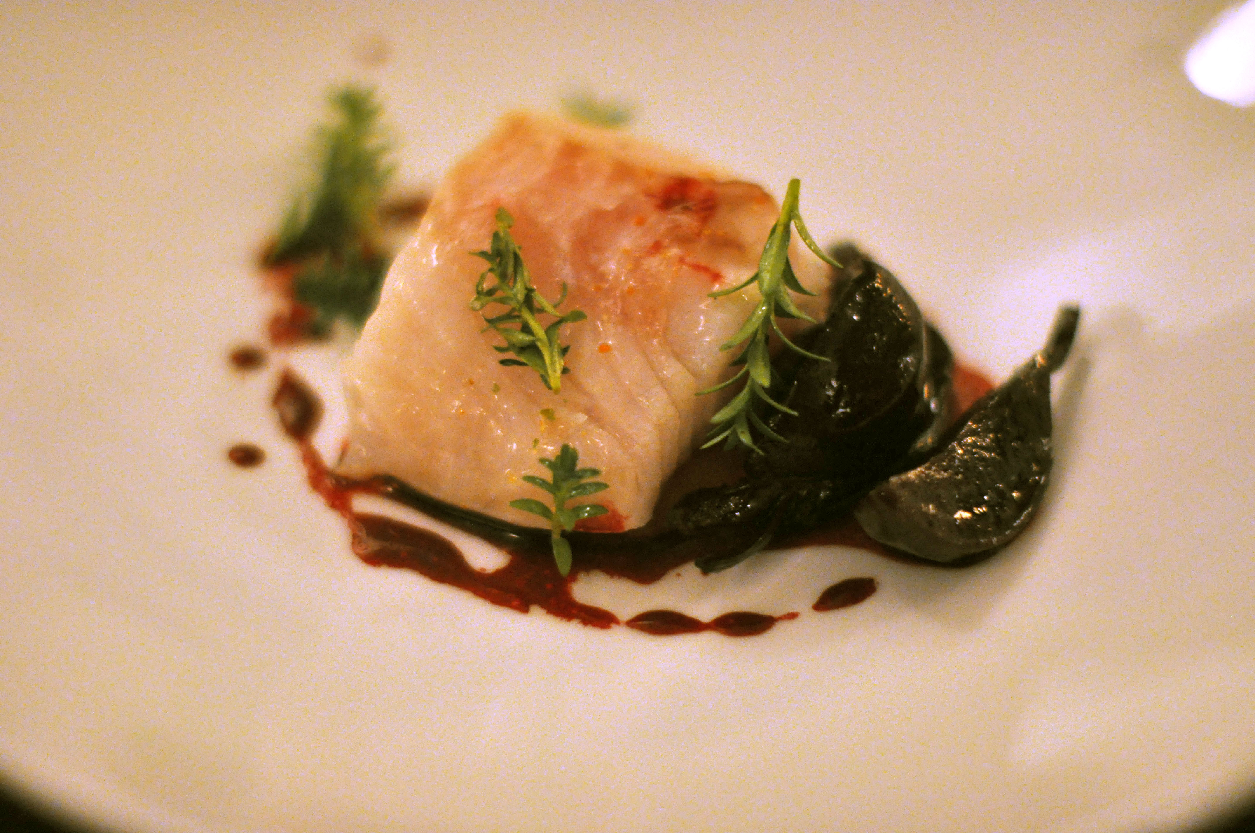 Torsk med rødbede og strandurter (Cod with beetroot and beach herbs)